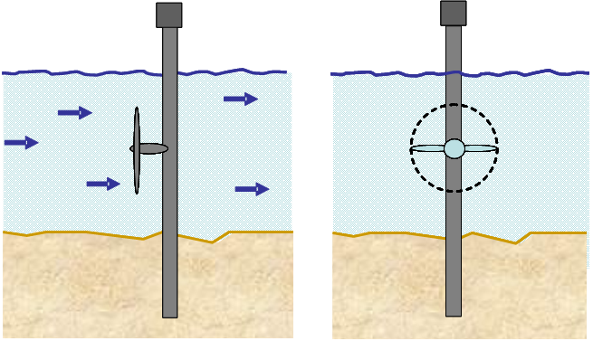 Artwork illustrating a typical tower mounted tidal turbine